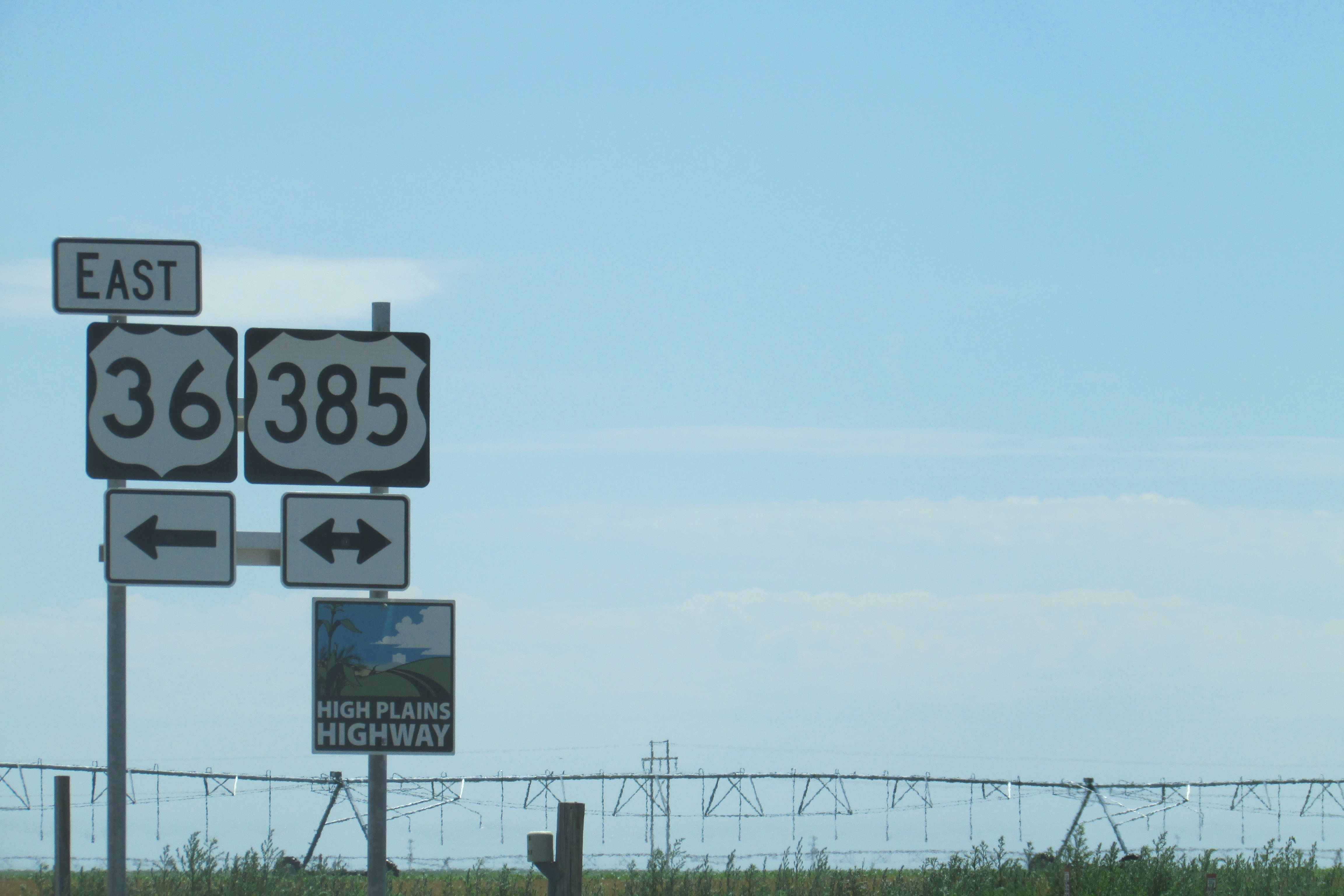 U.S. Route 36 meets U.S. Route 385 in eastern Colorado.